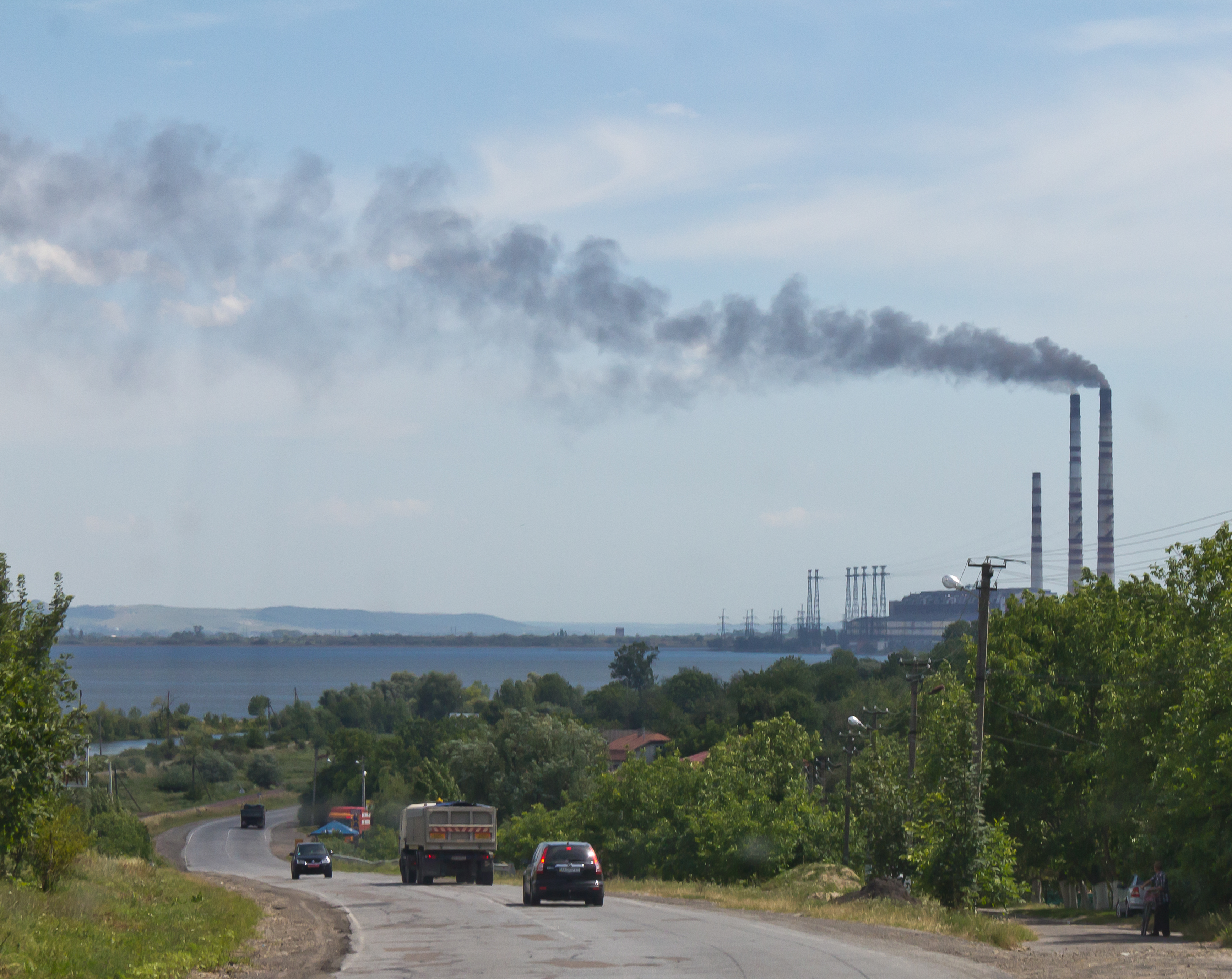 Power plant Burshtyn TES, Ivano-Frankivsk Oblast, Ukraine